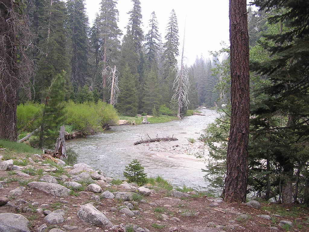 Mixed conifer forest along the Marble Fork of the Kaweah River — in Sequoia National Park. Located in the Sierra Nevada (mountains) of California.